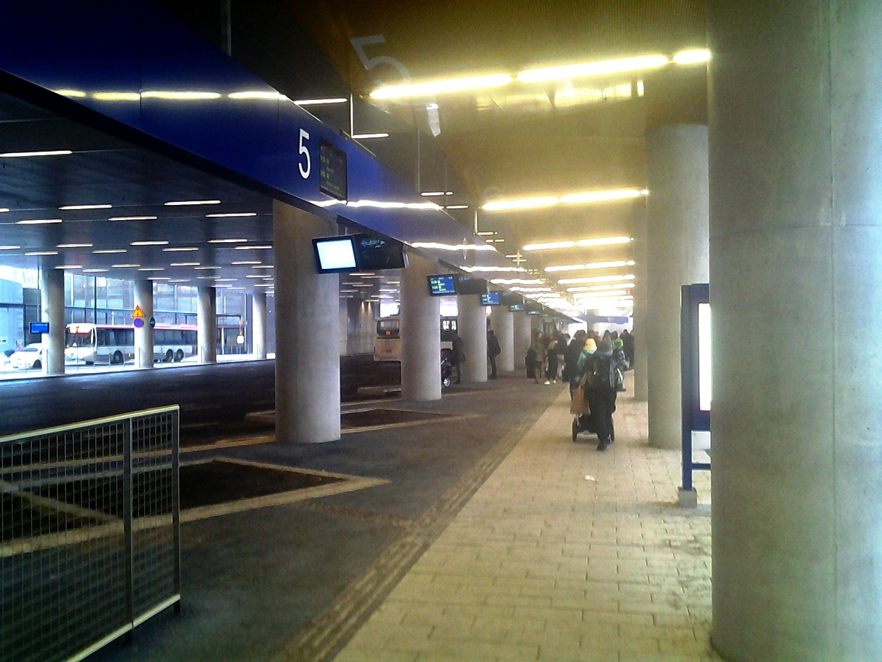 Bus platforms at Tikkurila travel centre.